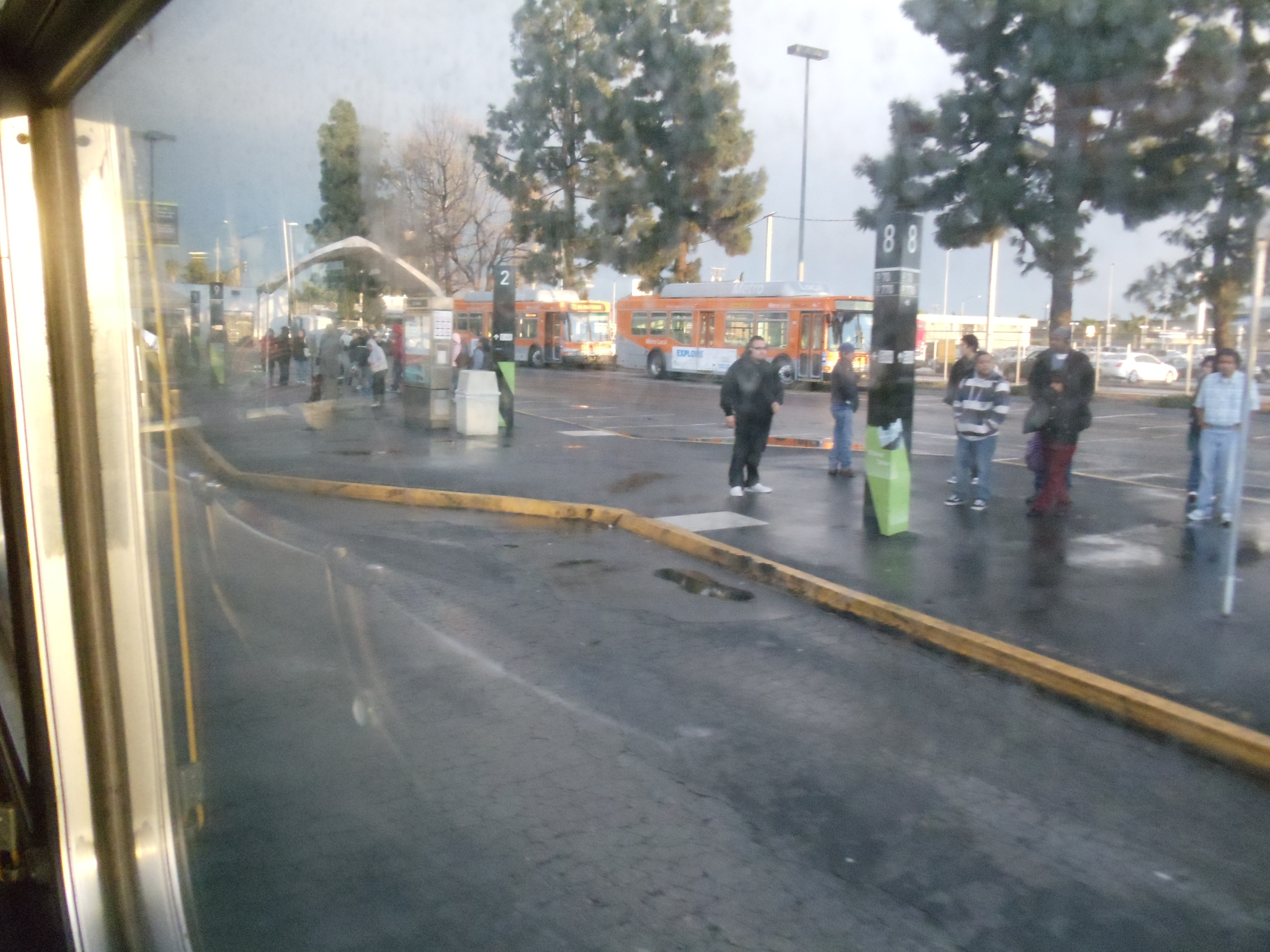 Some of Metro's bus bays